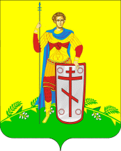 Coat of arms of Dmitríyevskaya, Krasnodar Krai, Russia.